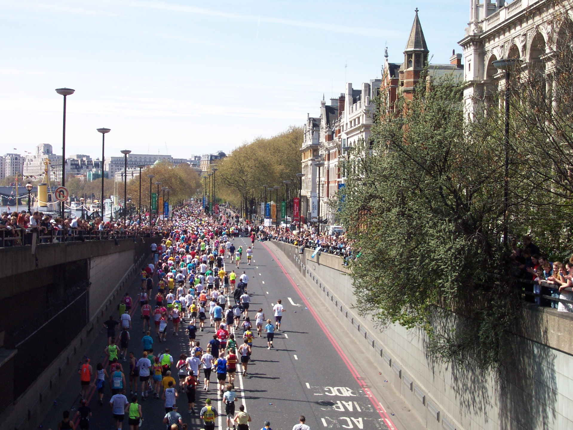 'Fun runners' surge out of the Blackfriars Bridge underpass onto the Victoria Embankment at the London Marathon 2005; four hours down and two miles to go.